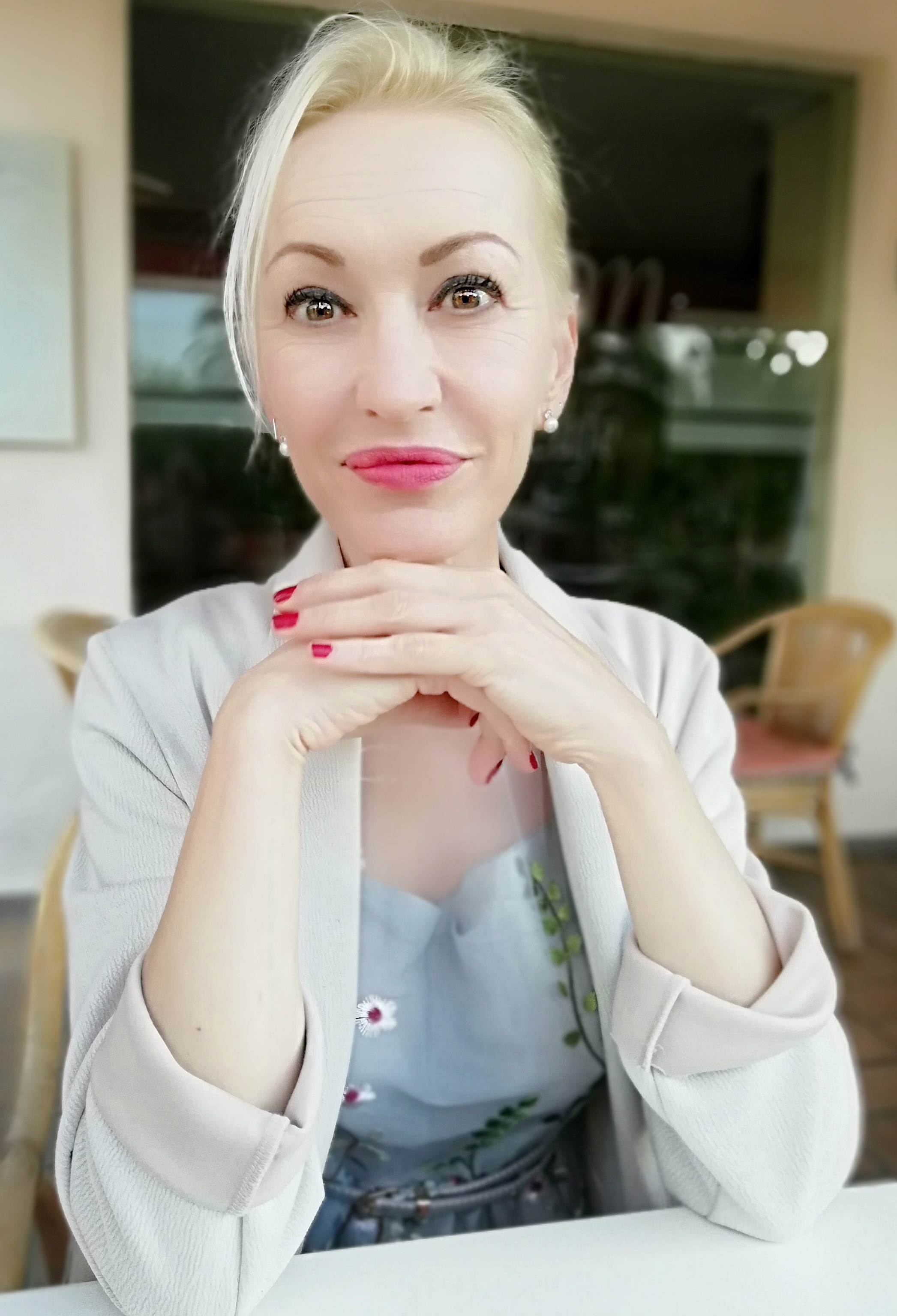 Cristina Milani in Switzerland